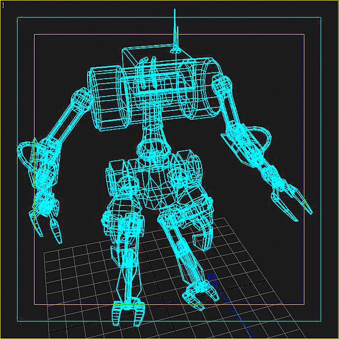 Robot wireframe. 3d Files are my own work.